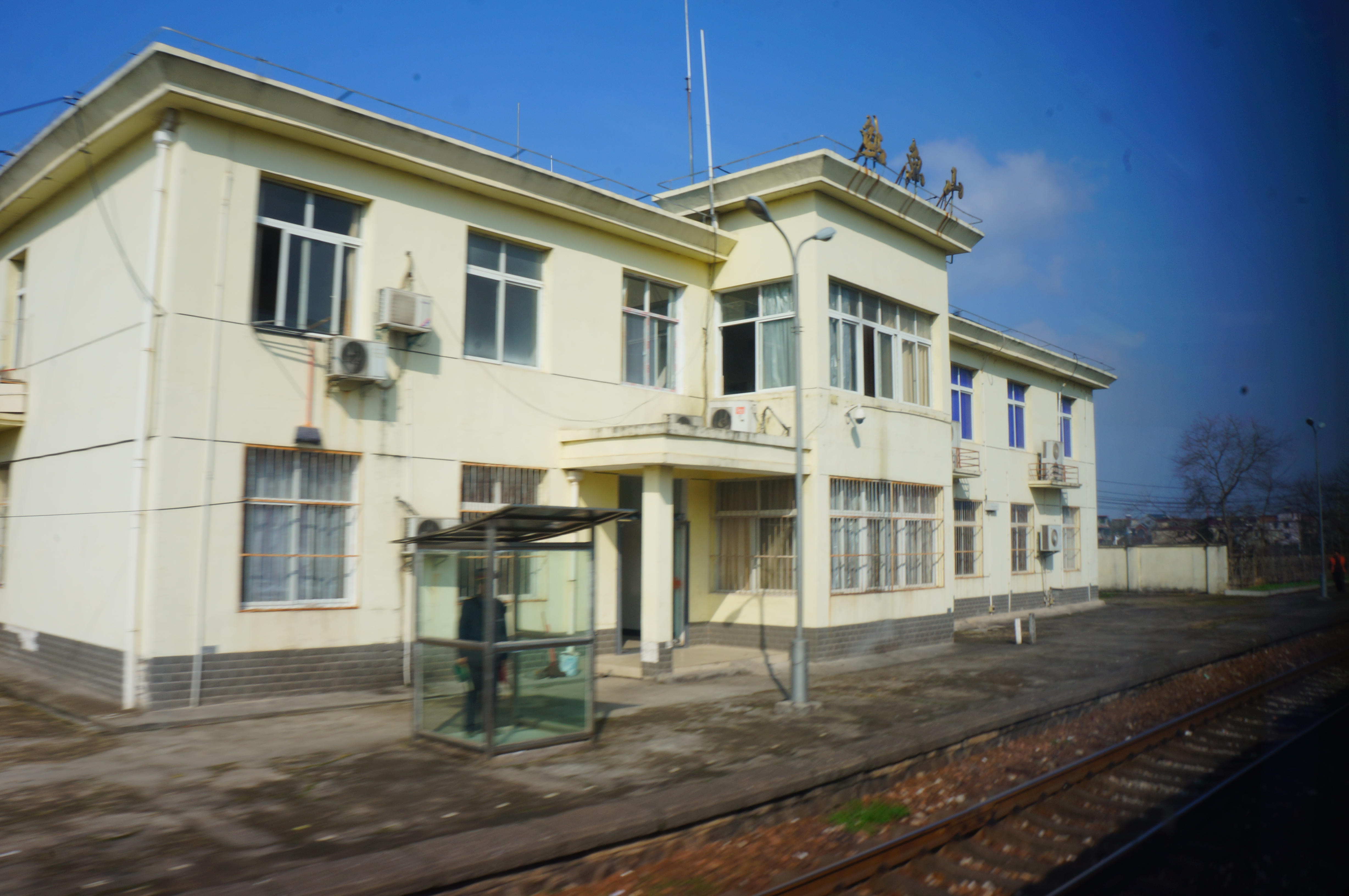 201612 Station building of Nianyushan Station